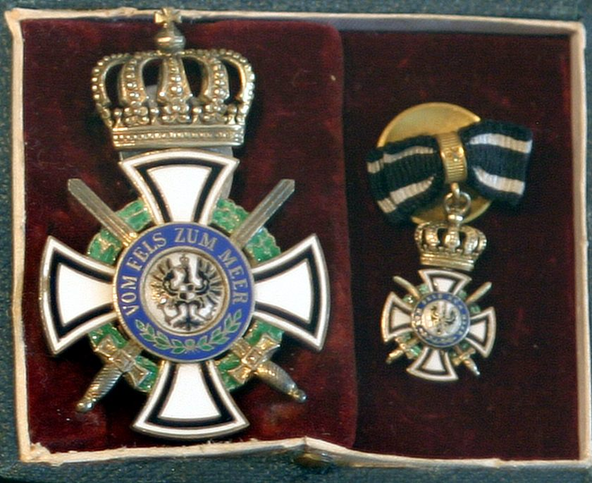 This image was taken at the Musée de l'Armée, Paris.